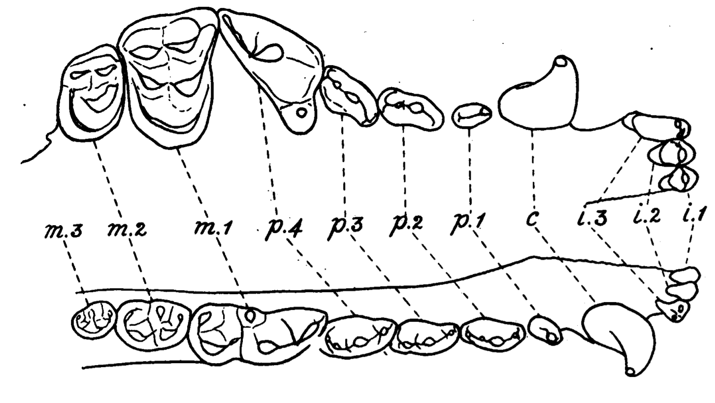 Drawing of Cynodesmus jaw and dentition